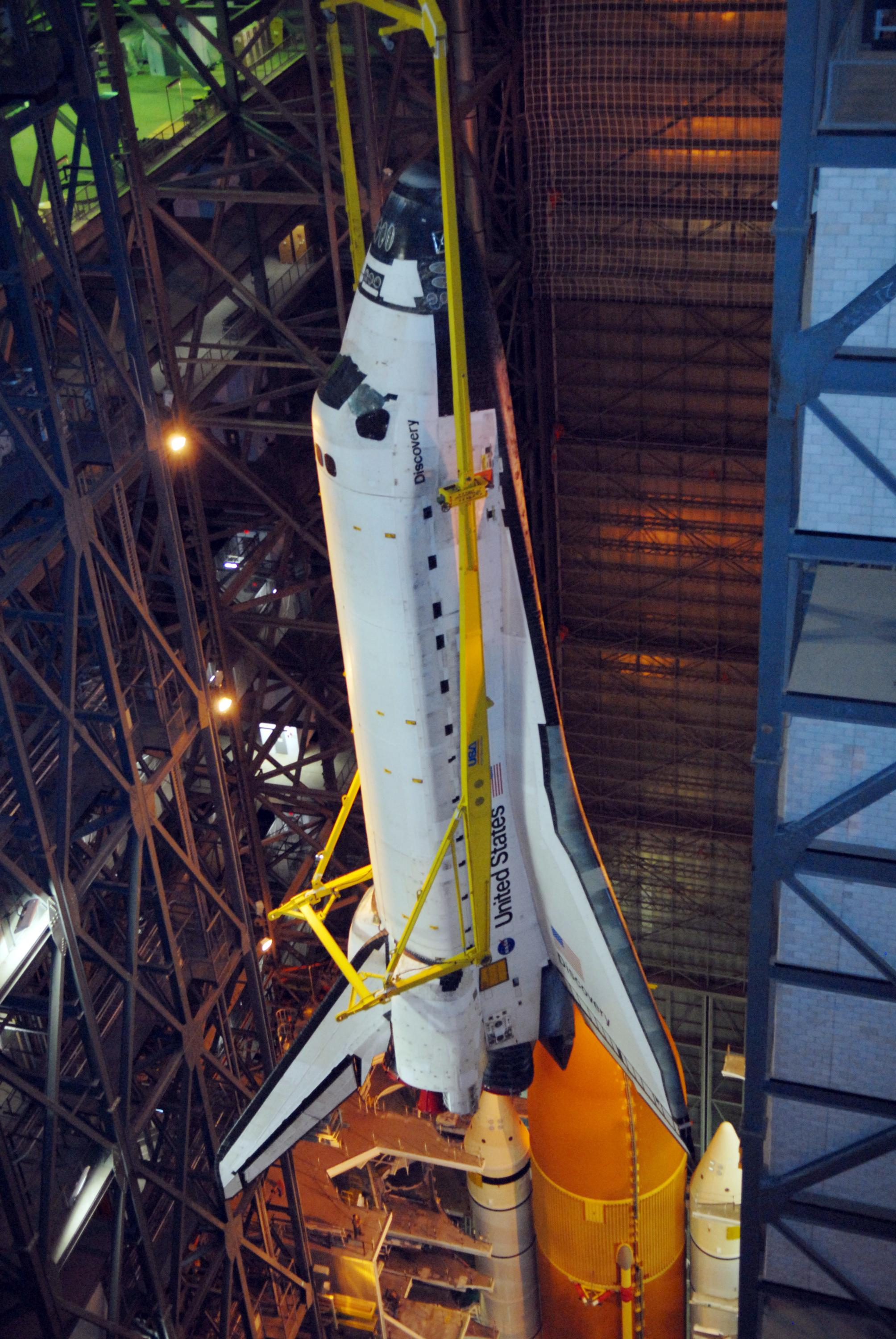 Space Shuttle Discovery is being raised to a vertical position and lifted into high bay 3 where it will be joined with its external fuel tank and solid rocket boosters on the mobile launcher platform.